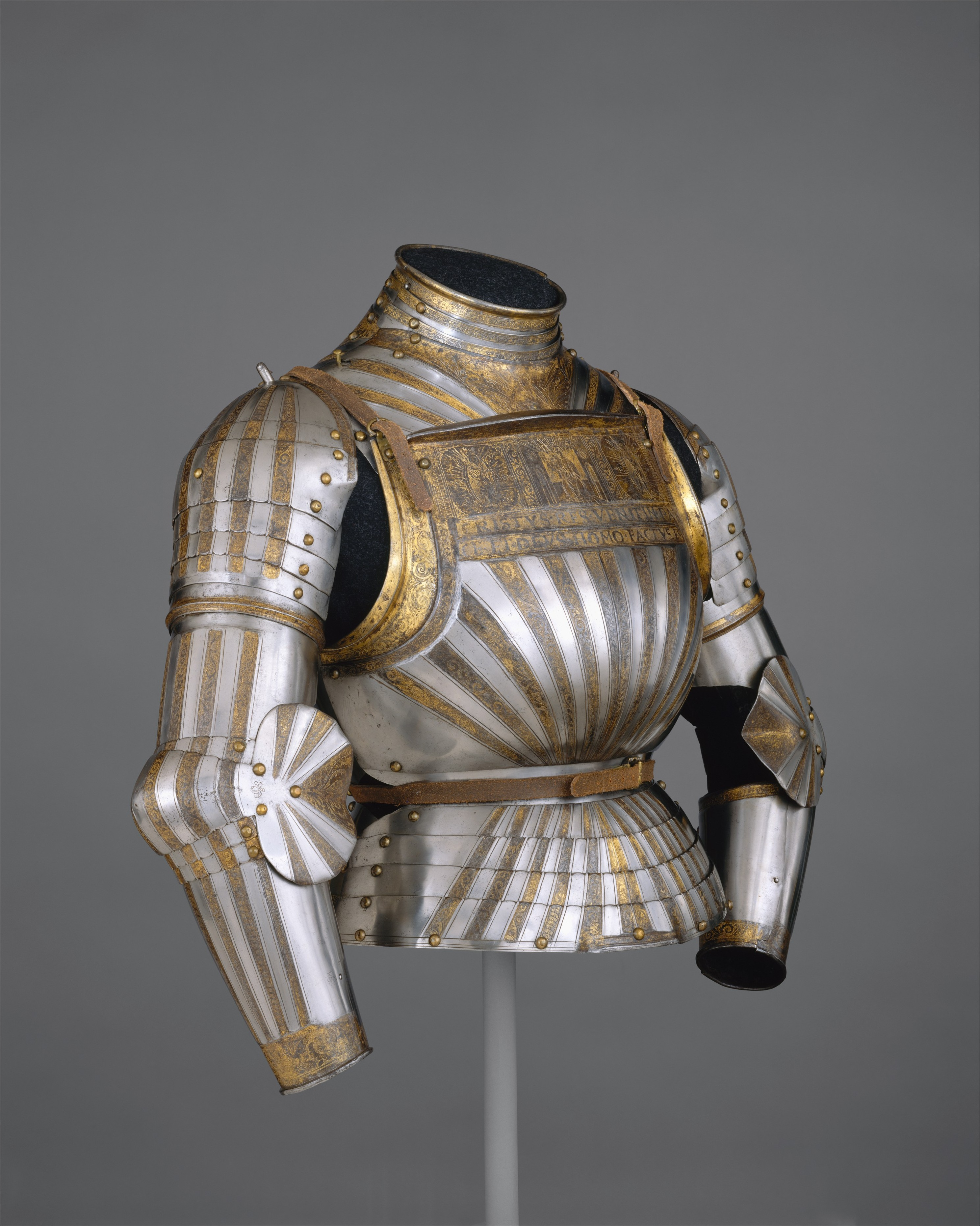 Italian, Milan; Elements of a light-cavalry armor; Armor for Man-1/2 Armor